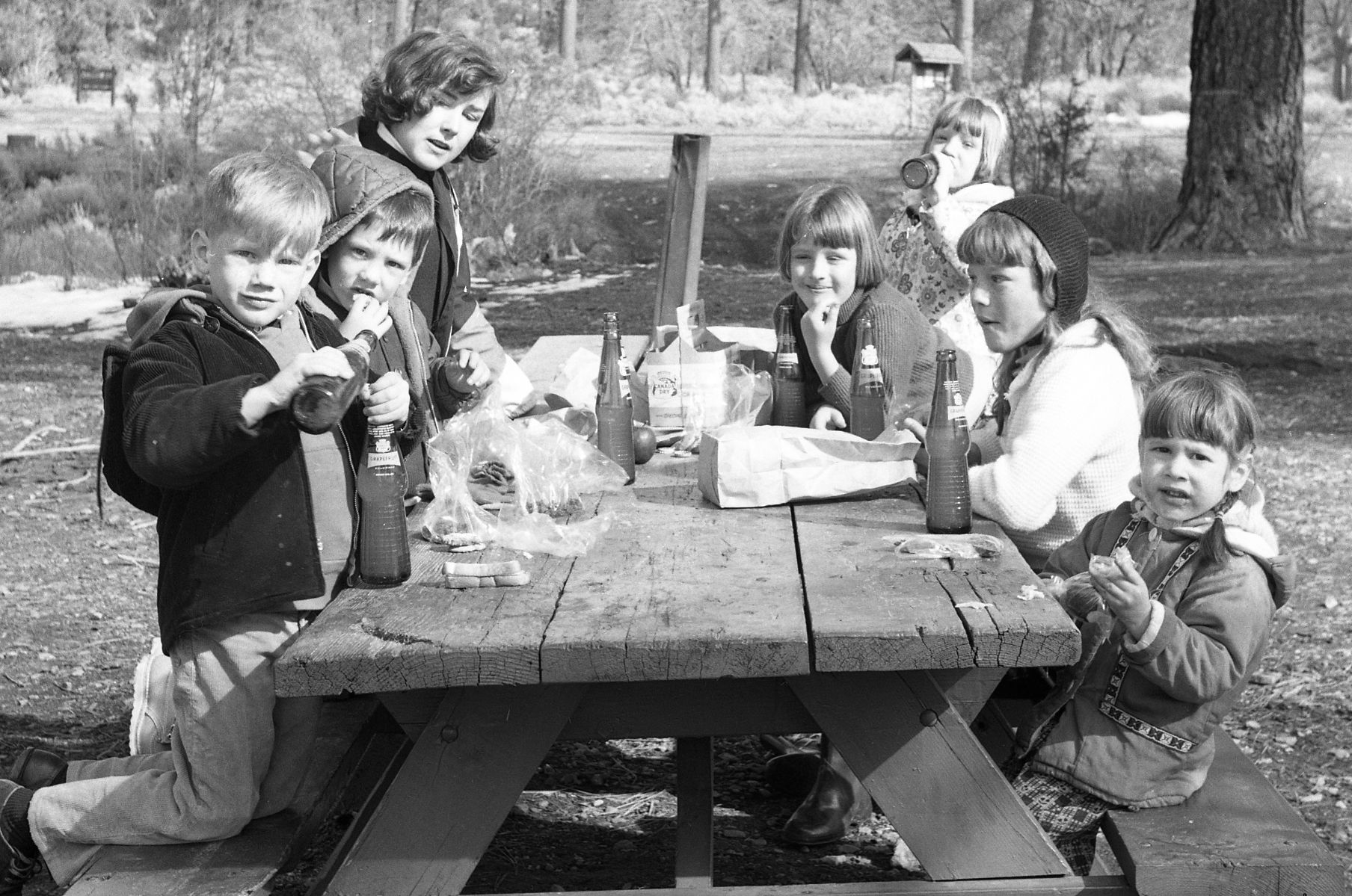 Adult and children at a wooden picnic table in California, about 1964 Other information Photo by George Garrigues.